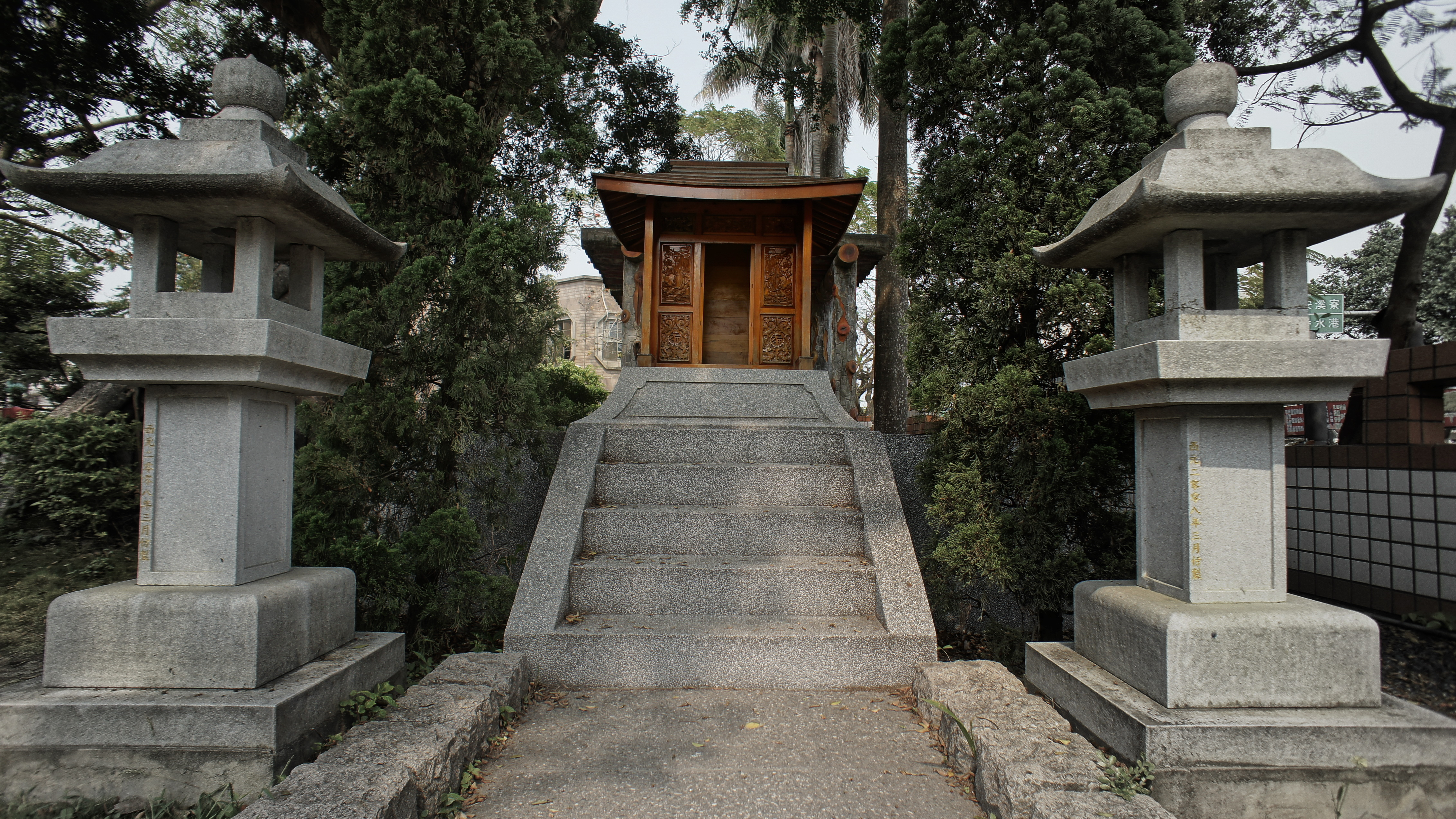 Tainan Municipal Yanshuei Elementary School, Shinto Shrine, Yanshui District, Tainan City, Taiwan.